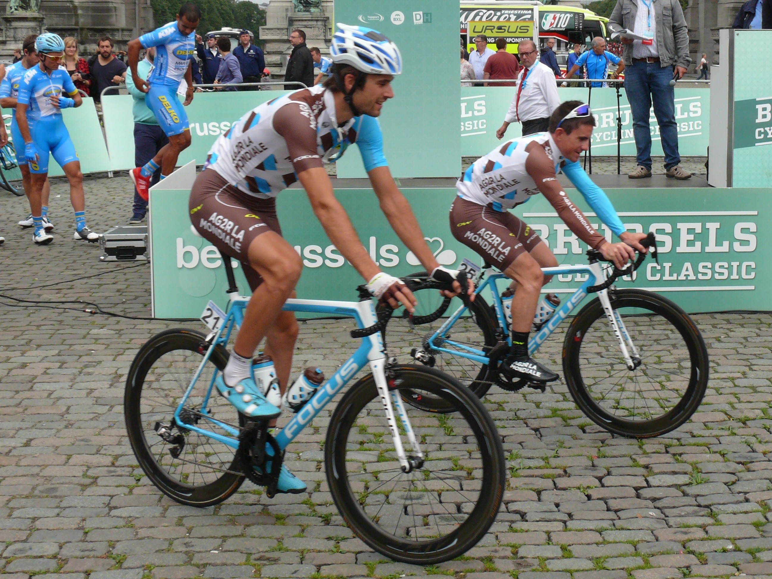 Brussels Cycling Classic 2016, 3.9.2016, Brussels, Parc du Cinquantenaire, presentation of the teams before the start, team AG2R La Mondiale, from the left side are Ben Gastauer and Samuel Dumoulin